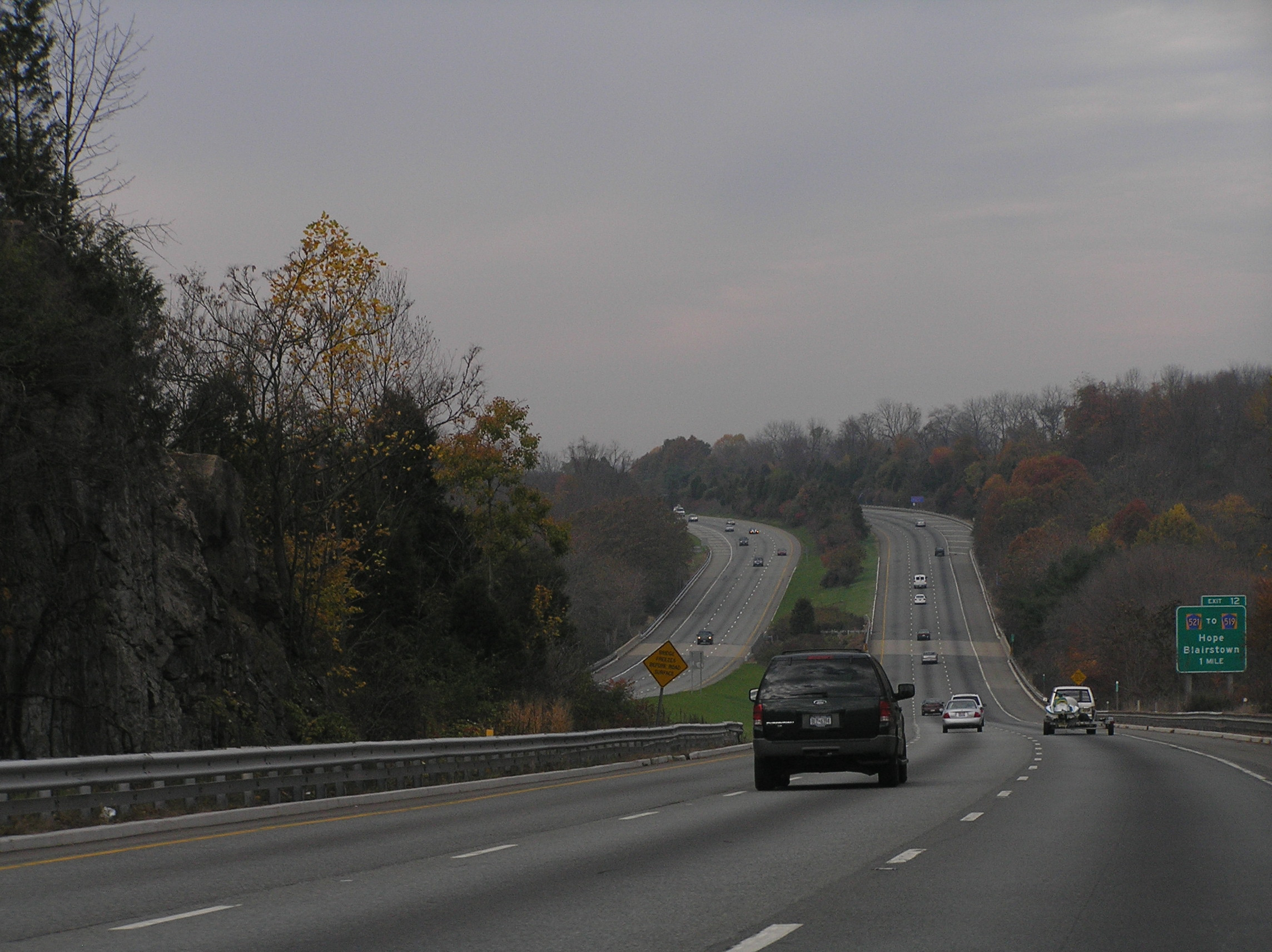 A westbound shot of the Interstate 80 in Hope Township, NJ, about 1 mile east of Exit 12.